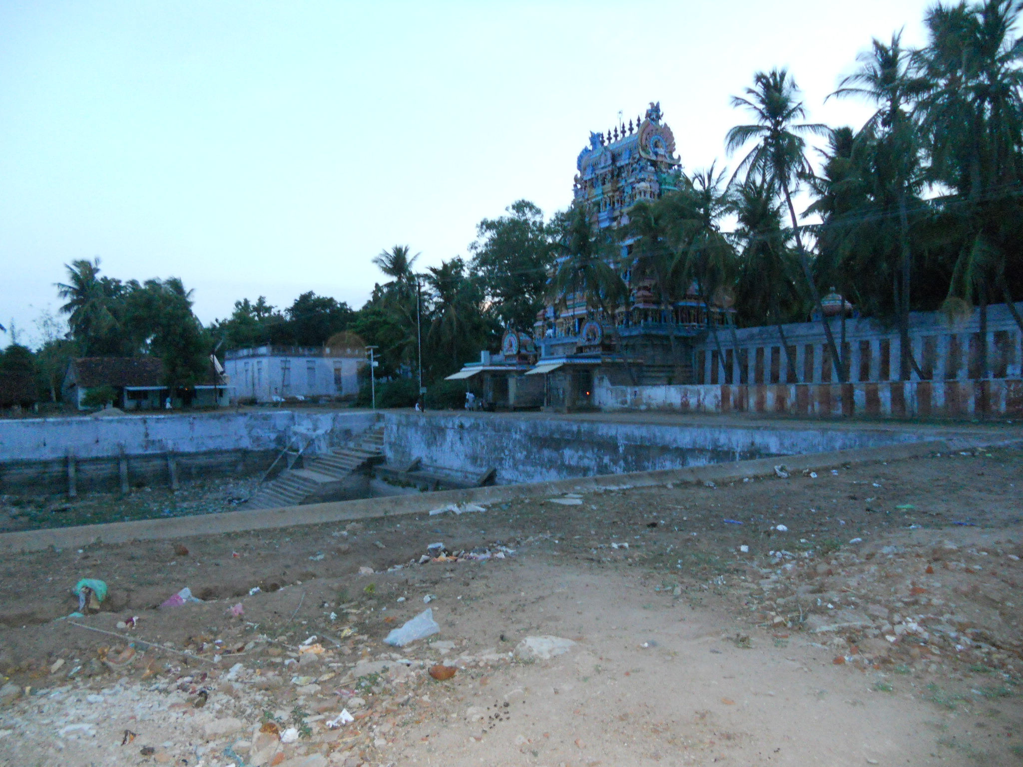 Thiruvaduthurai temple